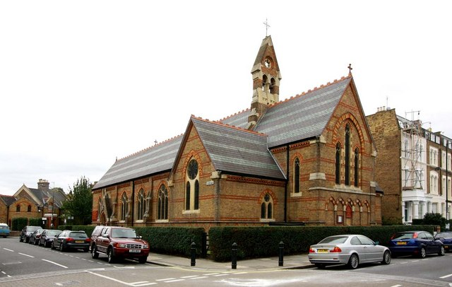 St Matthew, Sinclair Road, London W14, near to Hammersmith, Hammersmith And Fulham, Great Britain.